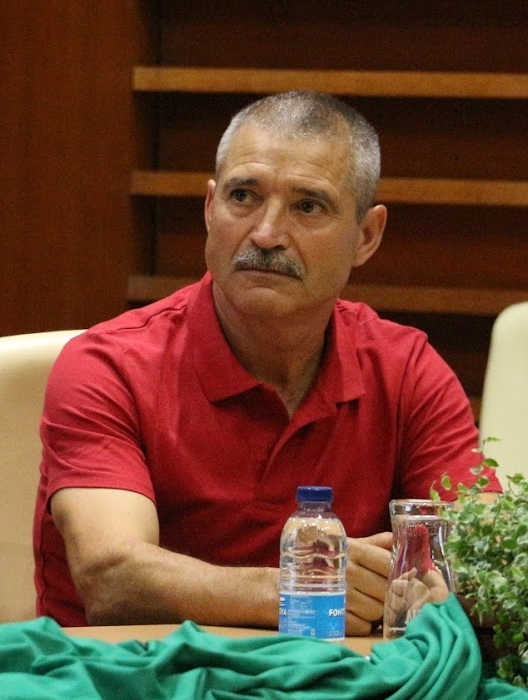 Portuguese writer Agostinho Leal, during a book presentation.